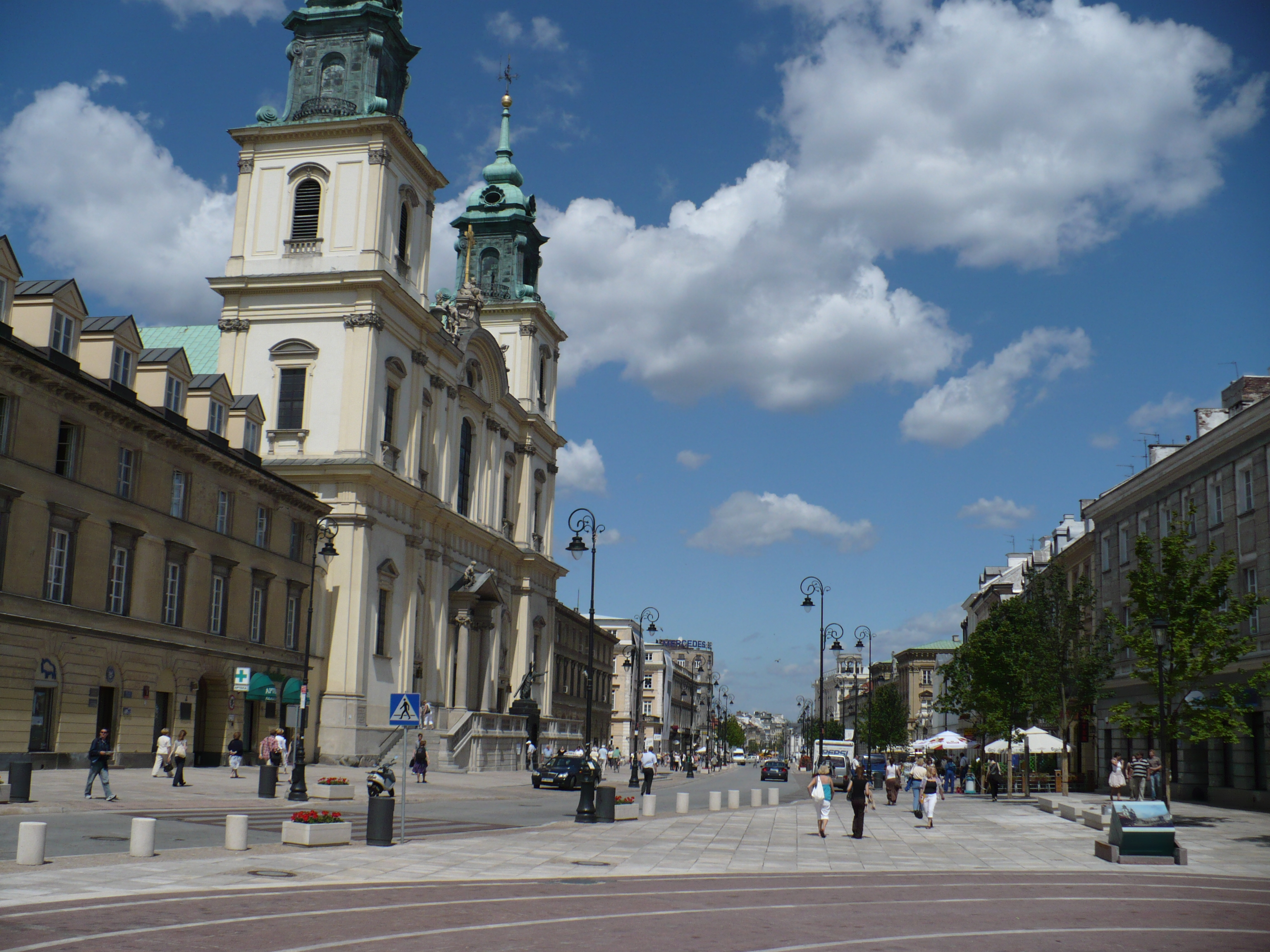 Church on Krakowskie Przedmiescie street